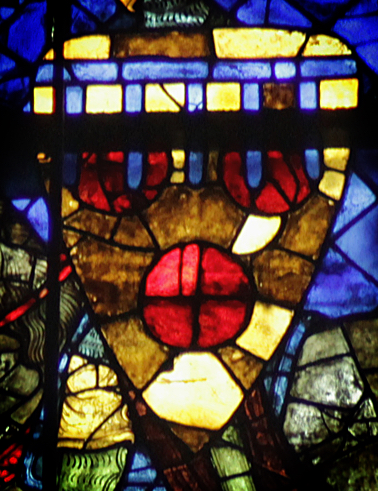 Courtenay arms